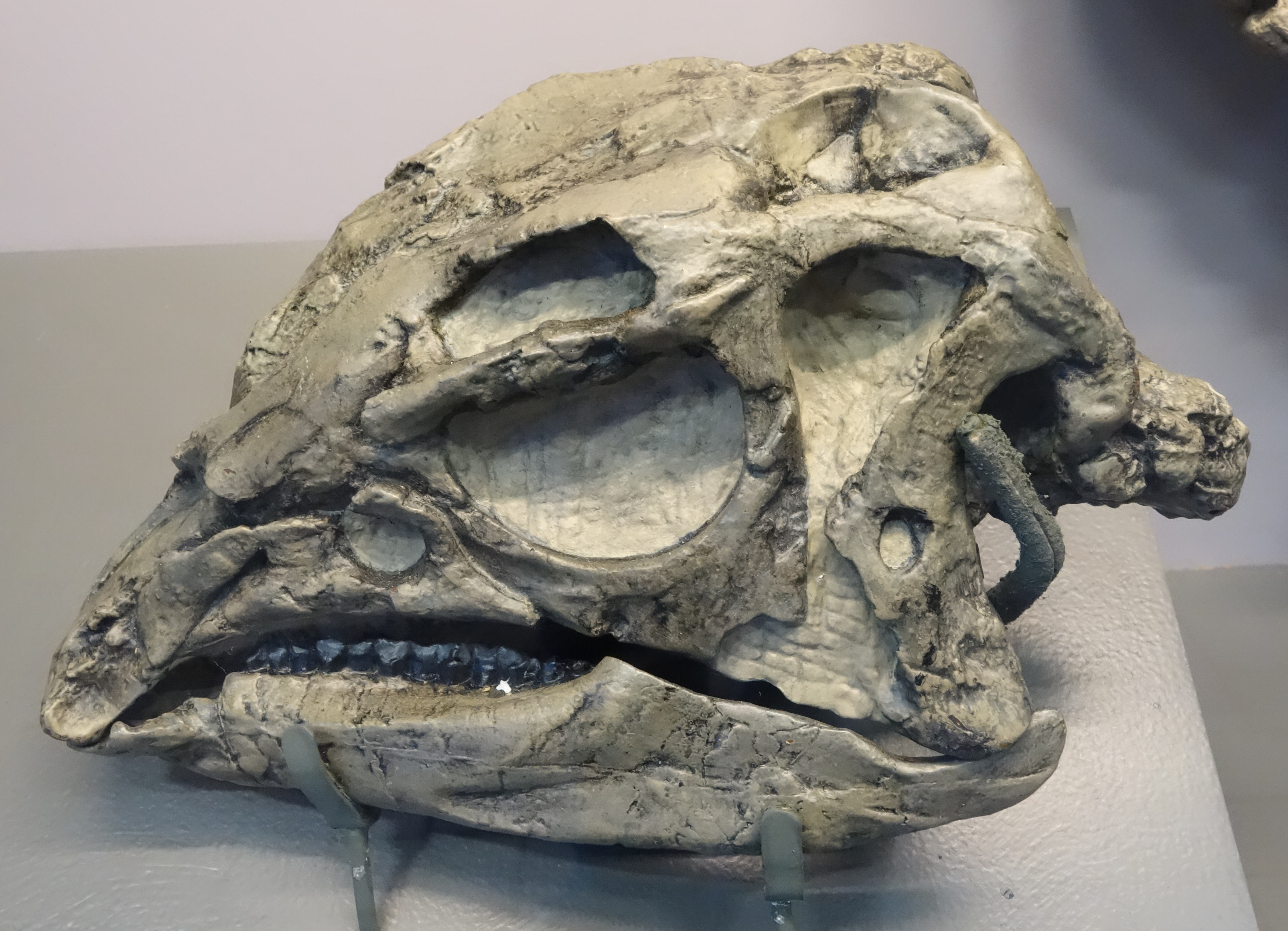 Skull cast of the Dryosaurus elderae (formerly assigned to D. altus) holotype, on display at the Quarry Visitor Center at Dinosaur National Monument. Specimen number DNM 2567, original at Carnegie Museum of Natural History (CM 3392)